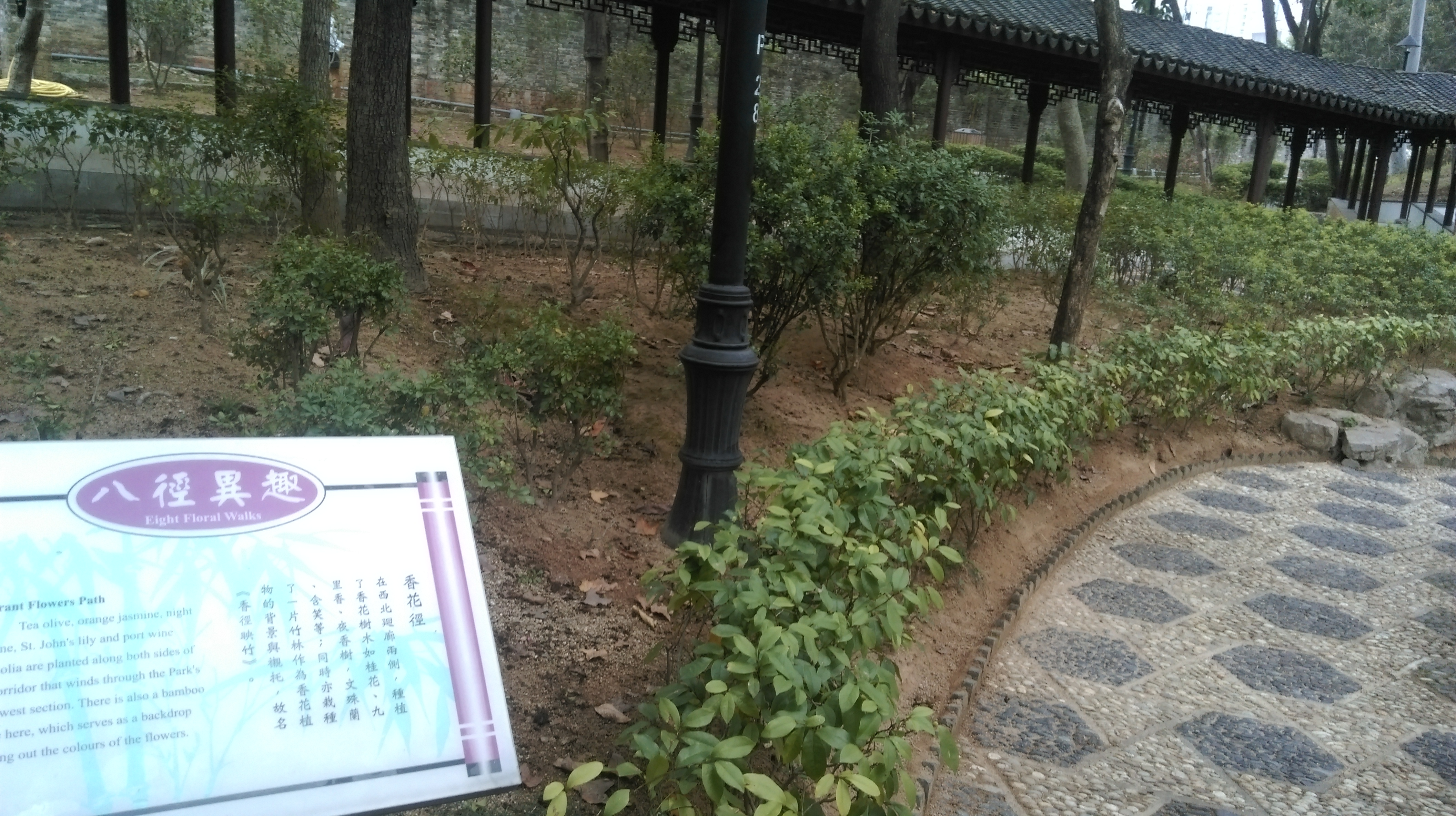 The Fragrant Flowers Path in Kowloon Walled City Park